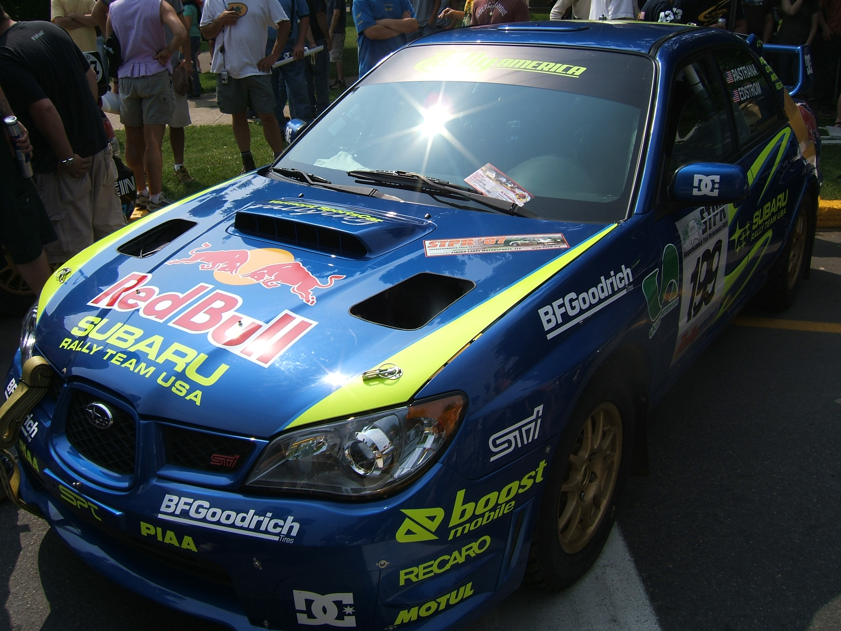 Travis Pastrana's 2006 Subaru Impreza WRX STI at the 2007 Susquehannock Trail Performance Rally in Pennsylvania. Round 5 of the 2007 Rally America National Championship.